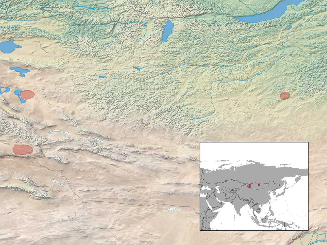 geographic distribution of Equus ferus